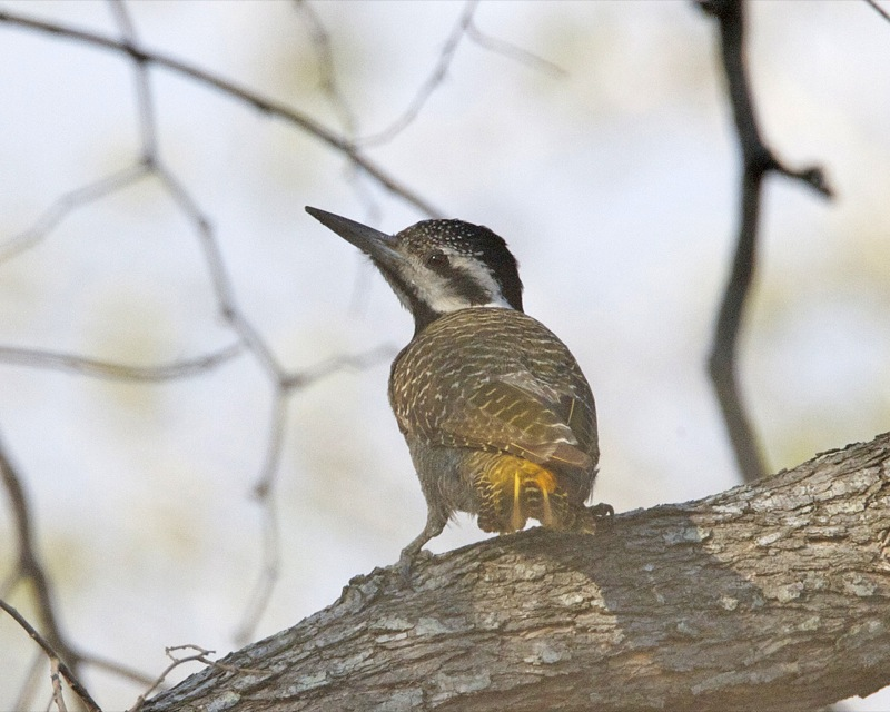 A female Bearded Woodpecker in the Kwa Madwala Game Park, Mpumalanga, South Africa